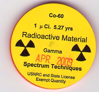 This is image of an plastic Isotope container containing Cobalt-60. There is a non-harmful amount in this container. The Cobalt-60 container was made by Spectrum Techniques LLC and the actual Cobalt-60 was created at Oak Ridge. And sold by United Nuclear.